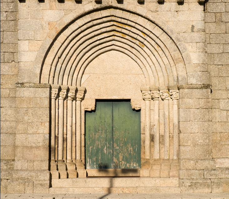 Portal of Travanca Monastery